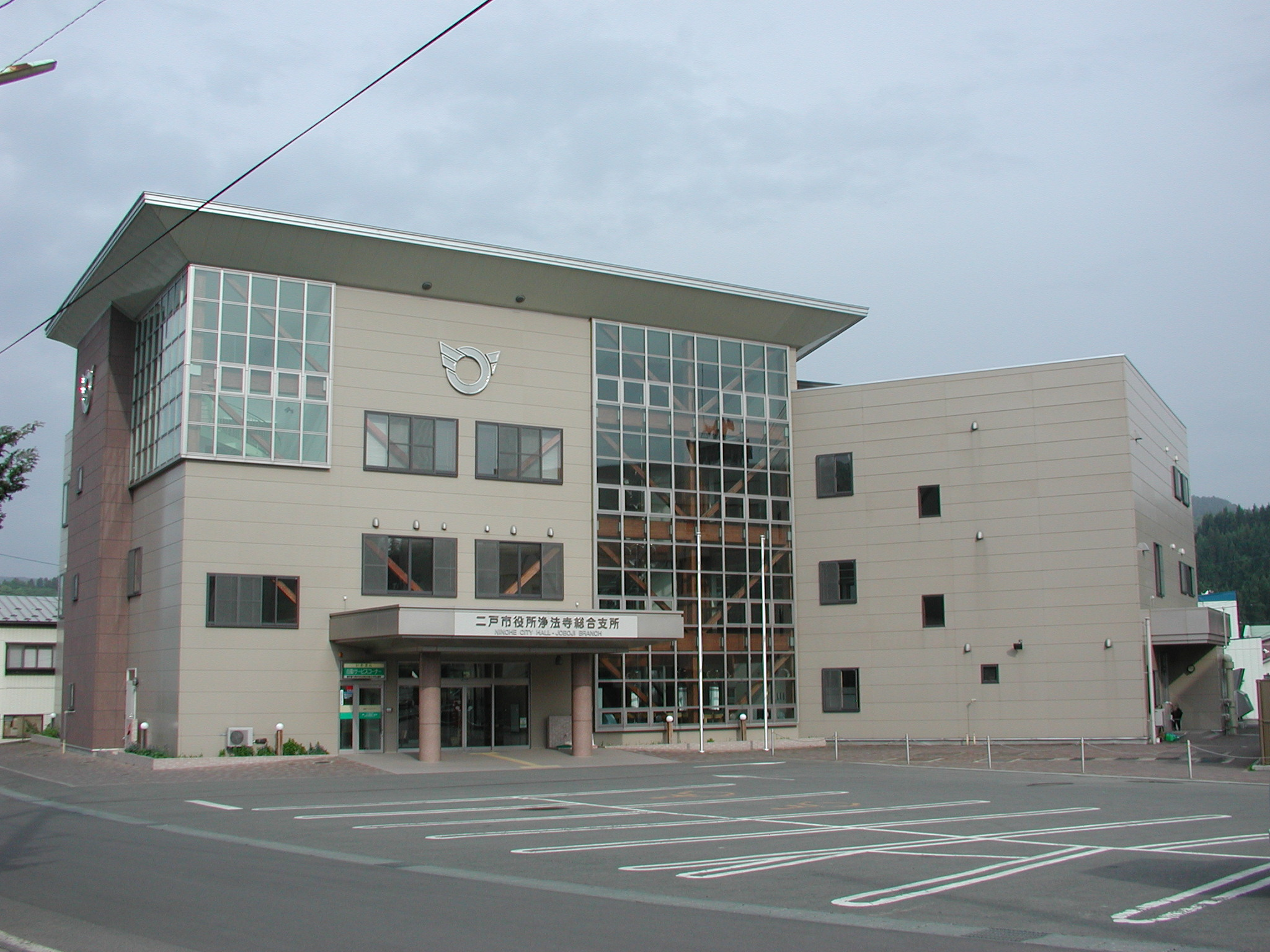 Ninohe City Hall Joboji Branch